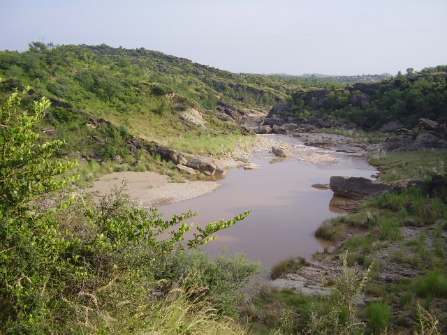 the Swaan (Soan) River in Pothohar region of Pakistan